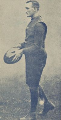 Photo of Bobby Monk taken before 1914